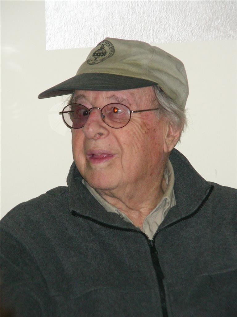 A picture of Gerald M. Friedman.